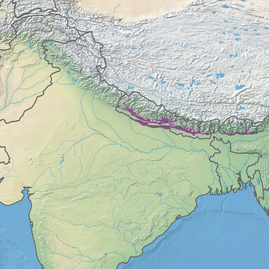 Ecoregion IM0115 - Hiamalayan subtropical broadleaf forests (in purple)